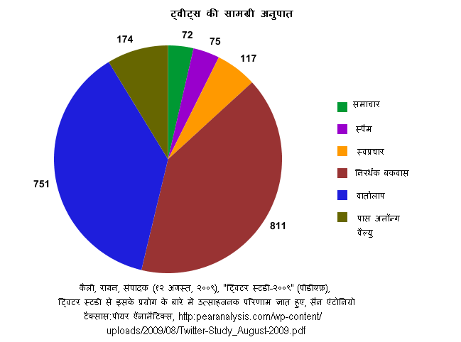 Used a program to make this file